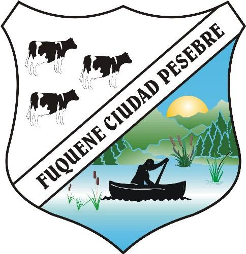 Fuquene SHIELD (CUND, THE TOP LEFT IS THE LIVESTOCK AND THE FIELD OF THE MUNICIPALITY, THE BOTTOM LEFT REPRESENTS THE JEWEL OF WATER IS MUNICIPIOP Fuquene Lake.